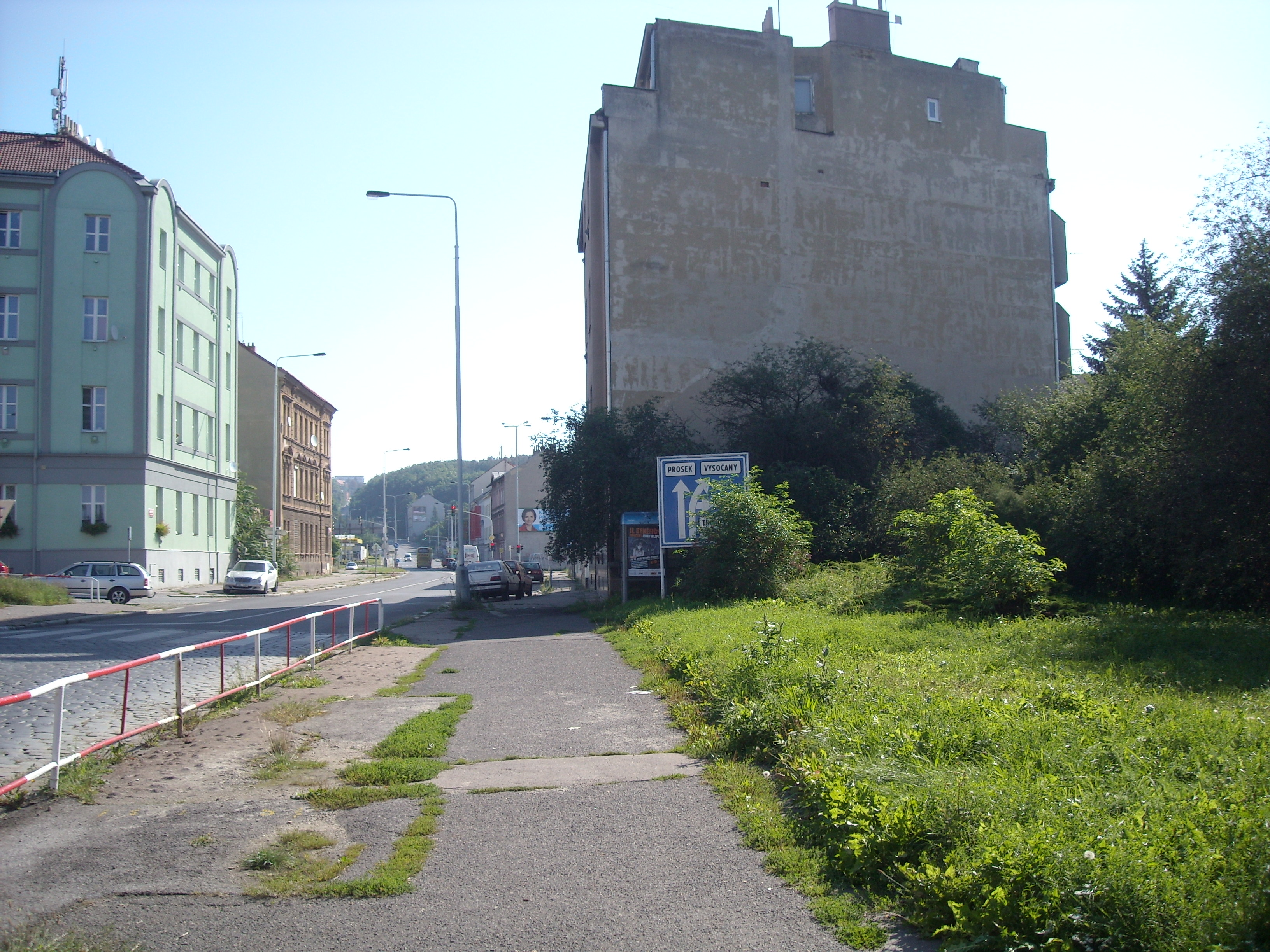 Prosecka street, Libeň, Praha 8